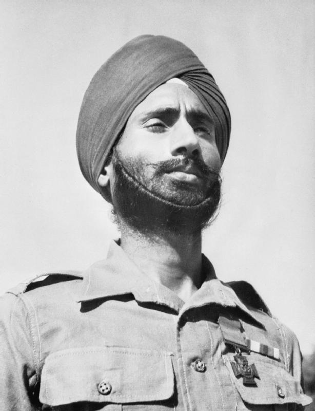 Photograph of Nand Singh VC.